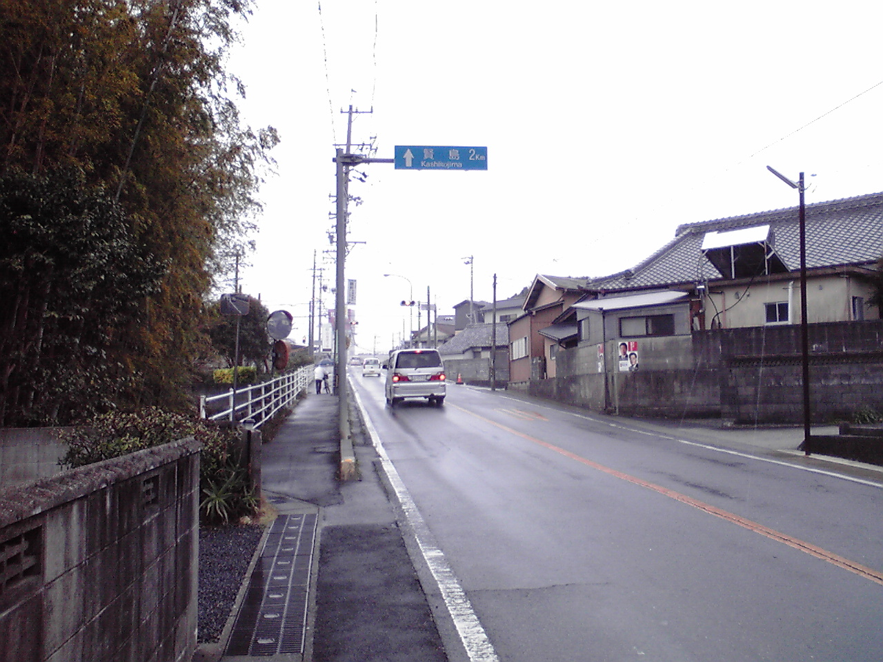 In front of Fumioka junior high school,Japan.